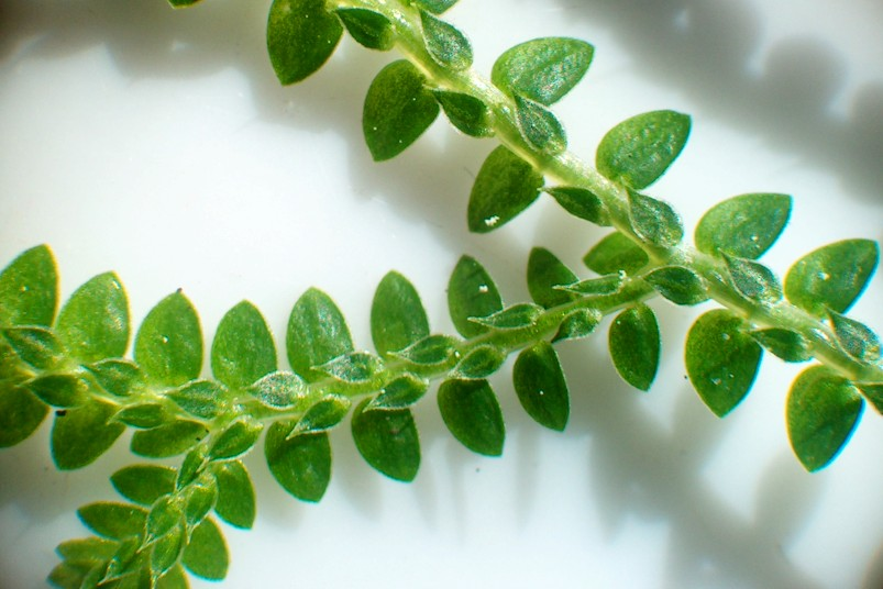 Scientific Name: Selaginella apoda (L.) Fernald var. ludoviciana (A. Braun) B. F. Hansen & Wunderlin Common Name: Gulf Spike-Moss Certainty: positive (notes) Location: Florida Panhandle; Torreya SP Date: 20060125 Close-up of leaves, at 10x. Note the hyaline margins diagnostic of this species are "easily" visible (easier to see in person!)